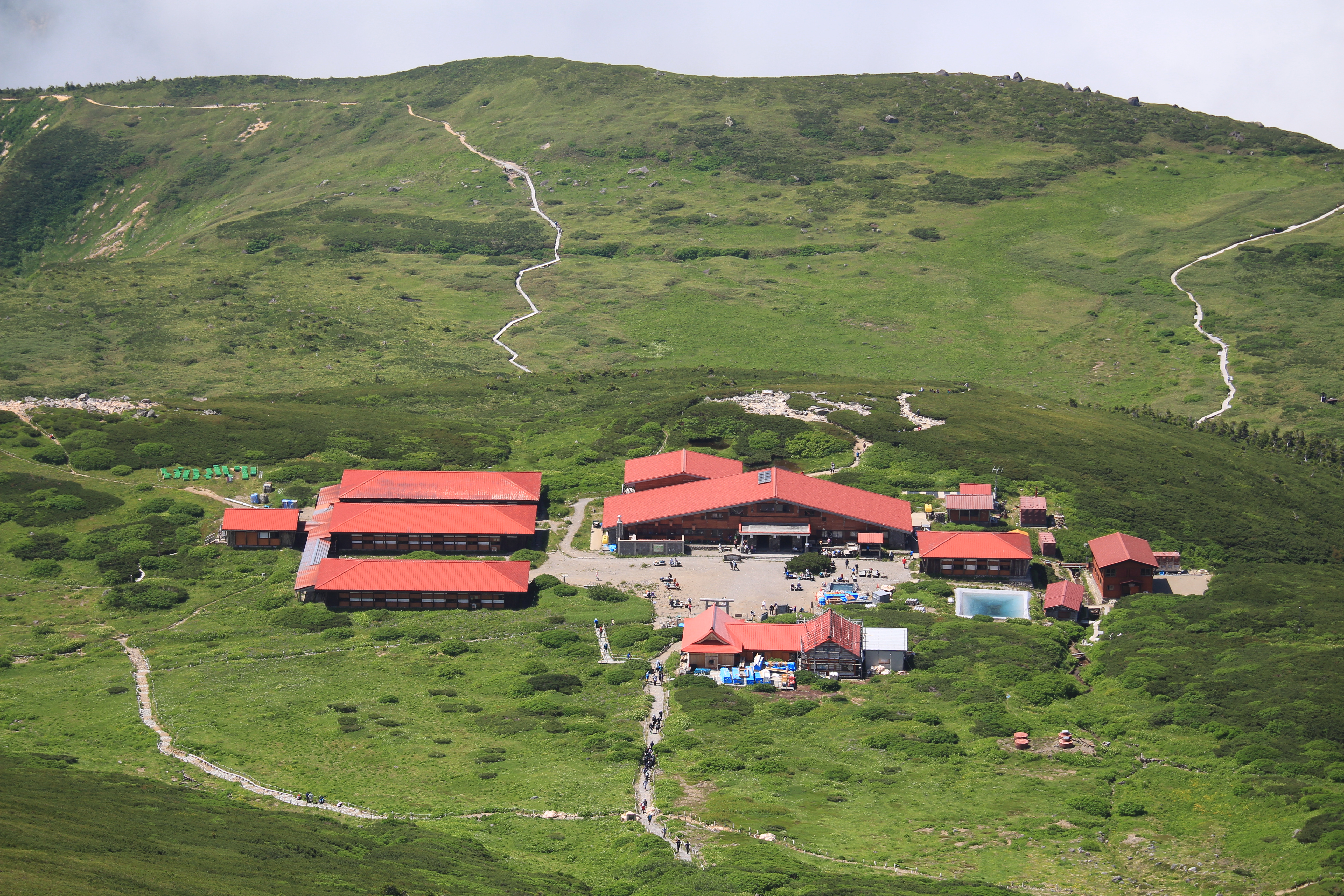 Murodo of Mount Haku in Hakusan, Ishikawa Prefecrure, Japan.